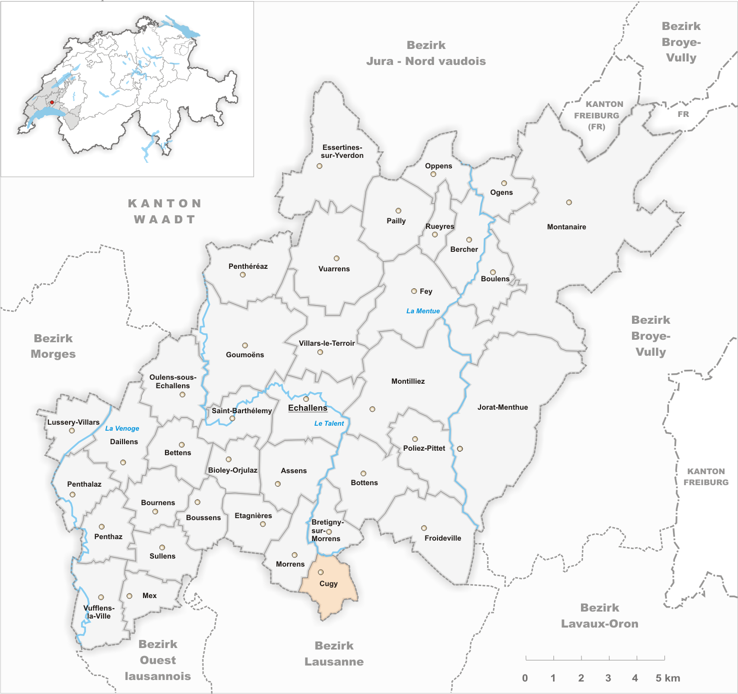 Municipality Cugy